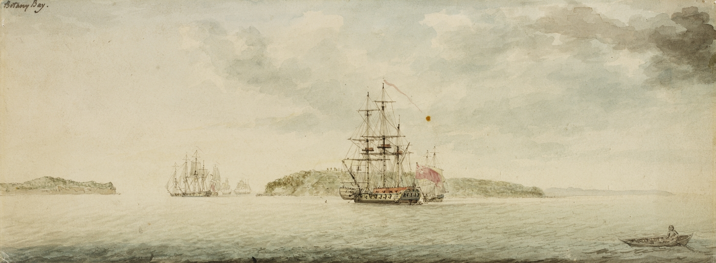 Botany Bay [New South Wales, ca 1789 / watercolour by Charles Gore]